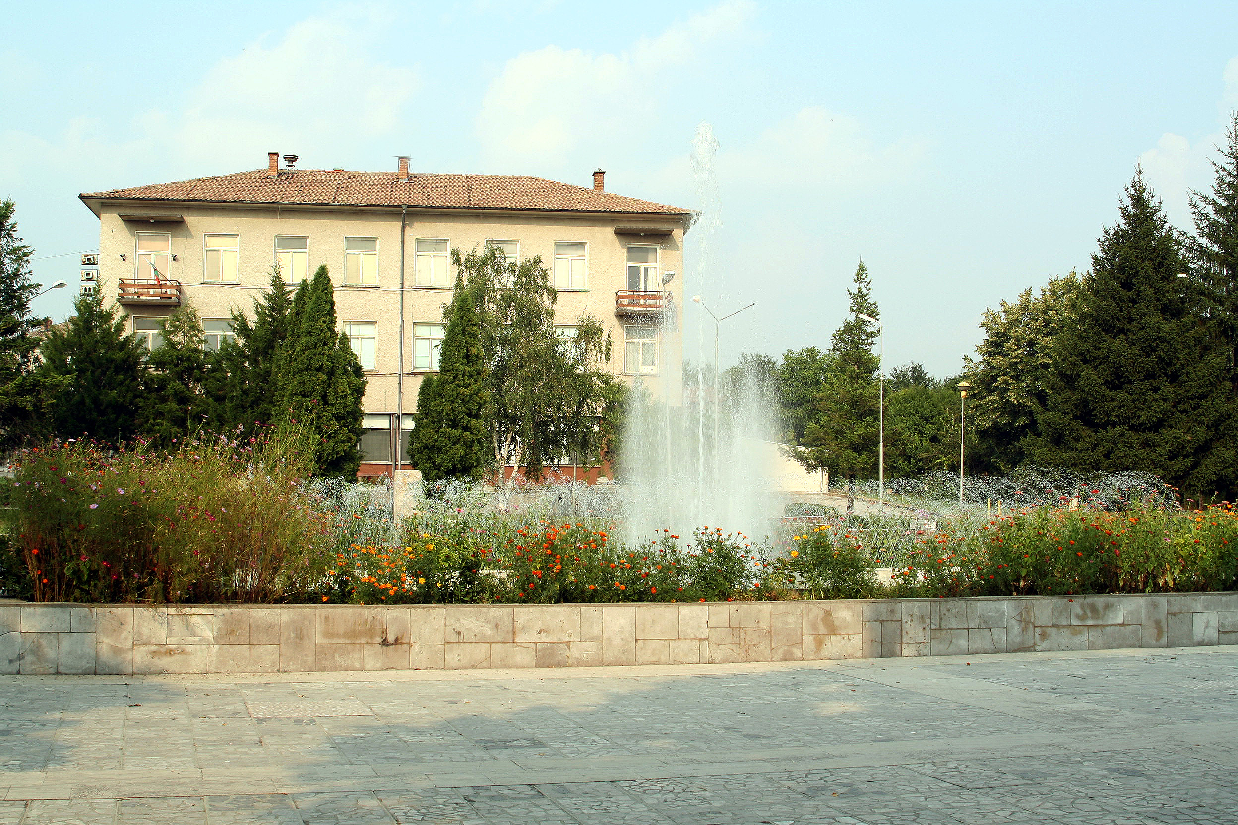 Town hall in Debelets, Bulgaria